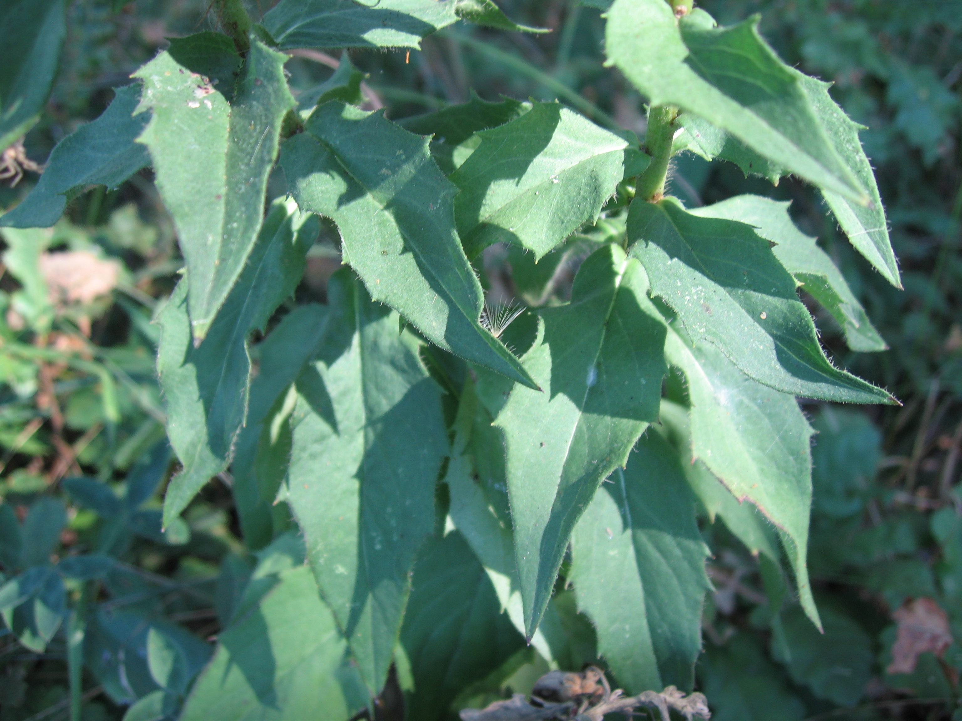 Hieracium sabaudum leaves